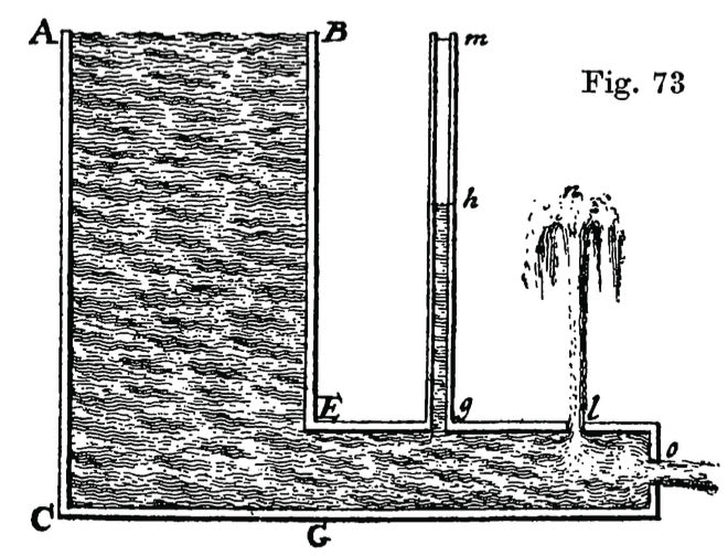 Illustration of the Bernoulli's principle first published in D. Bernoulli's book in 1738